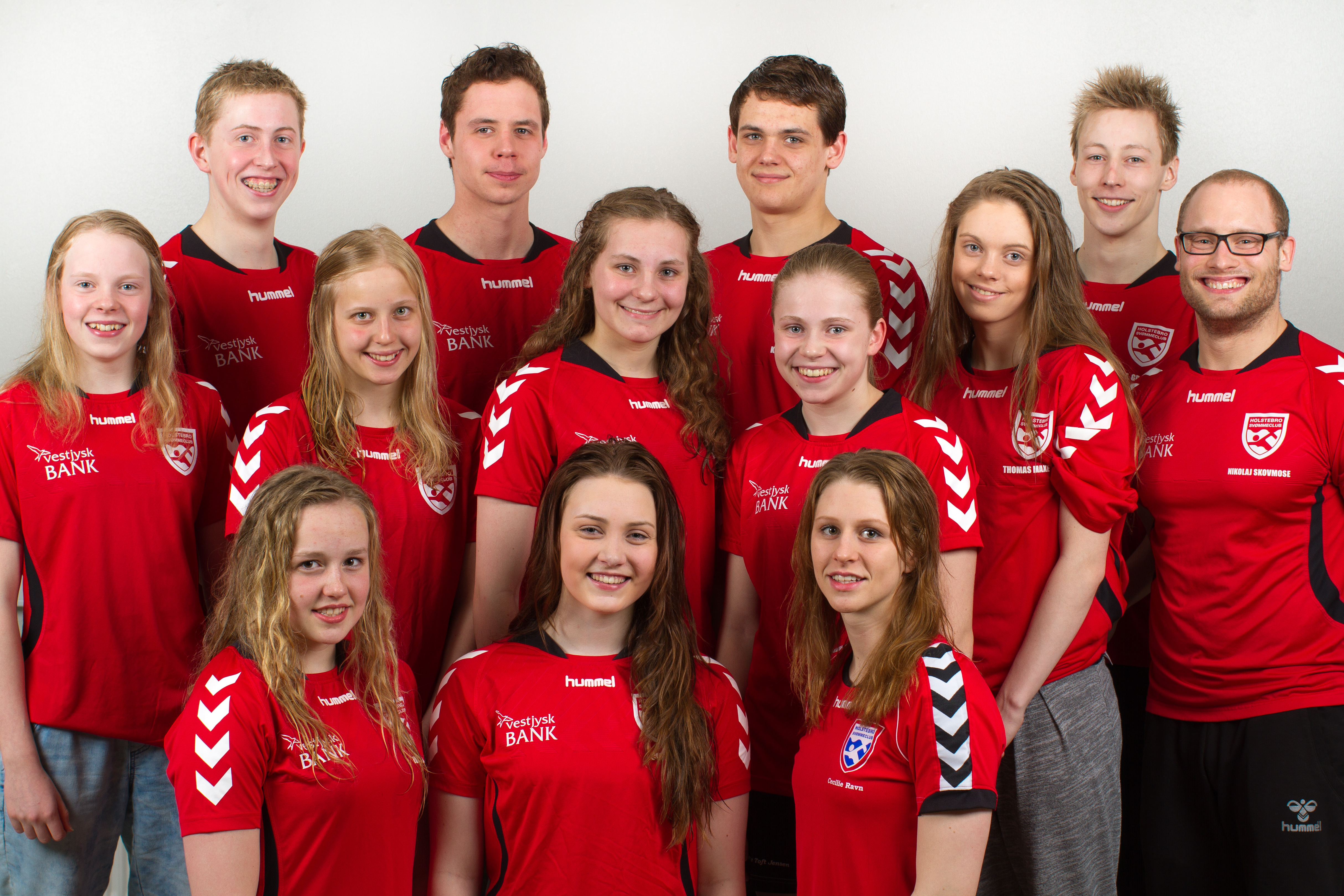 A-team (highest ranked swim team) at Holstebro Svømmeclub, Denmark, spring 2013.